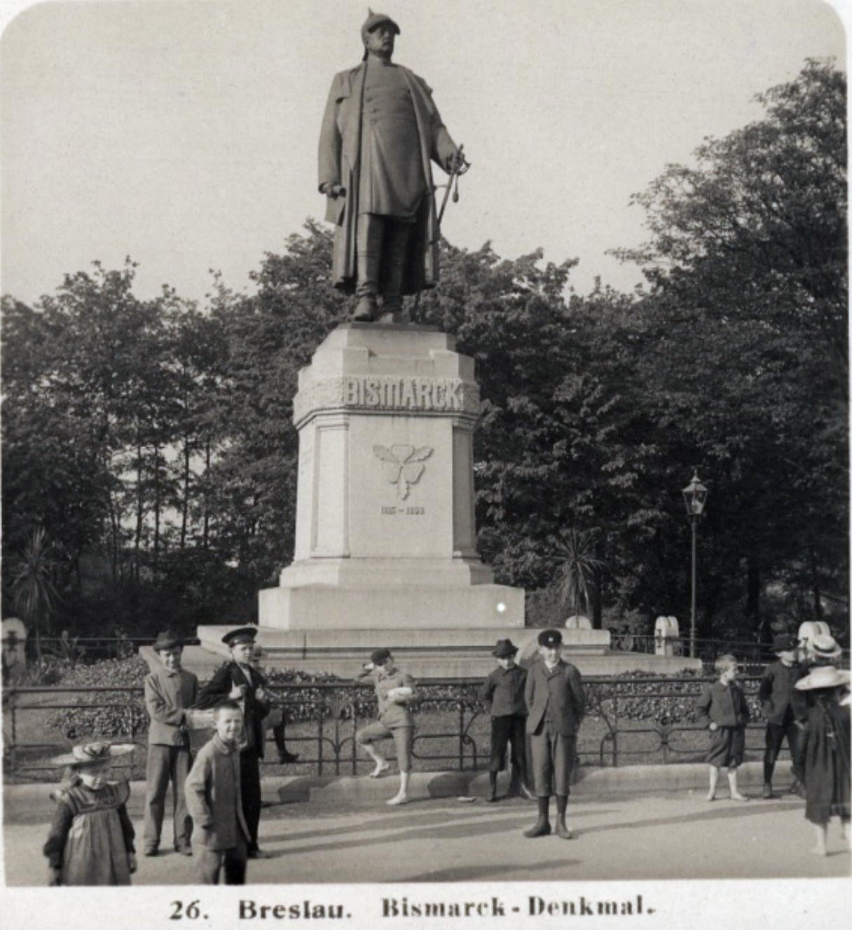 Statue of Otto von Bismarck, Wrocław, Lower Silesian Voivodeship, Poland.